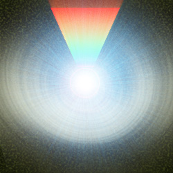 Gravitational redshift of a neutron star